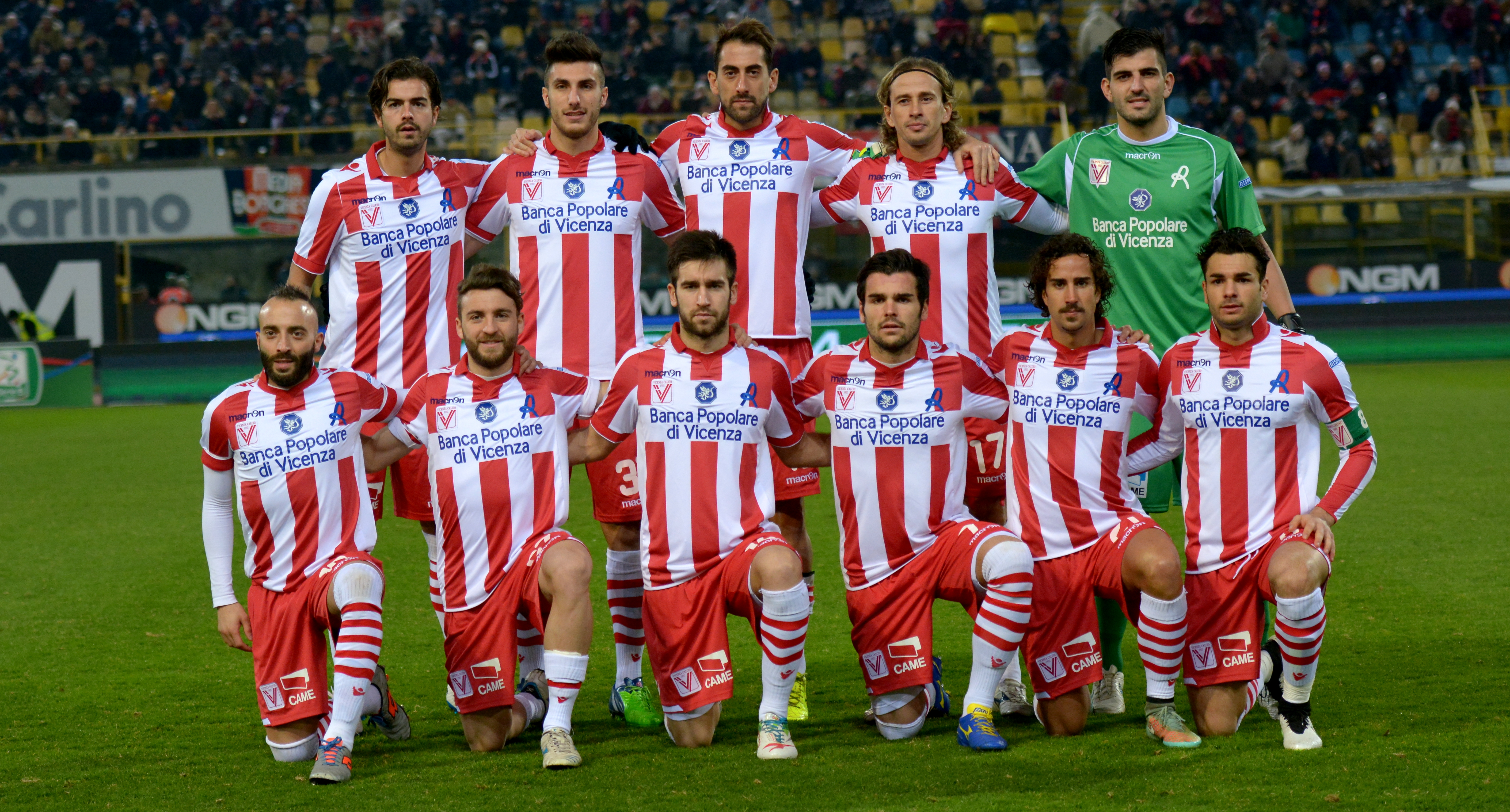 Initial 11 players for Vicenza Calcio, Bologna vs Vicenza, 2014-15 Serie B